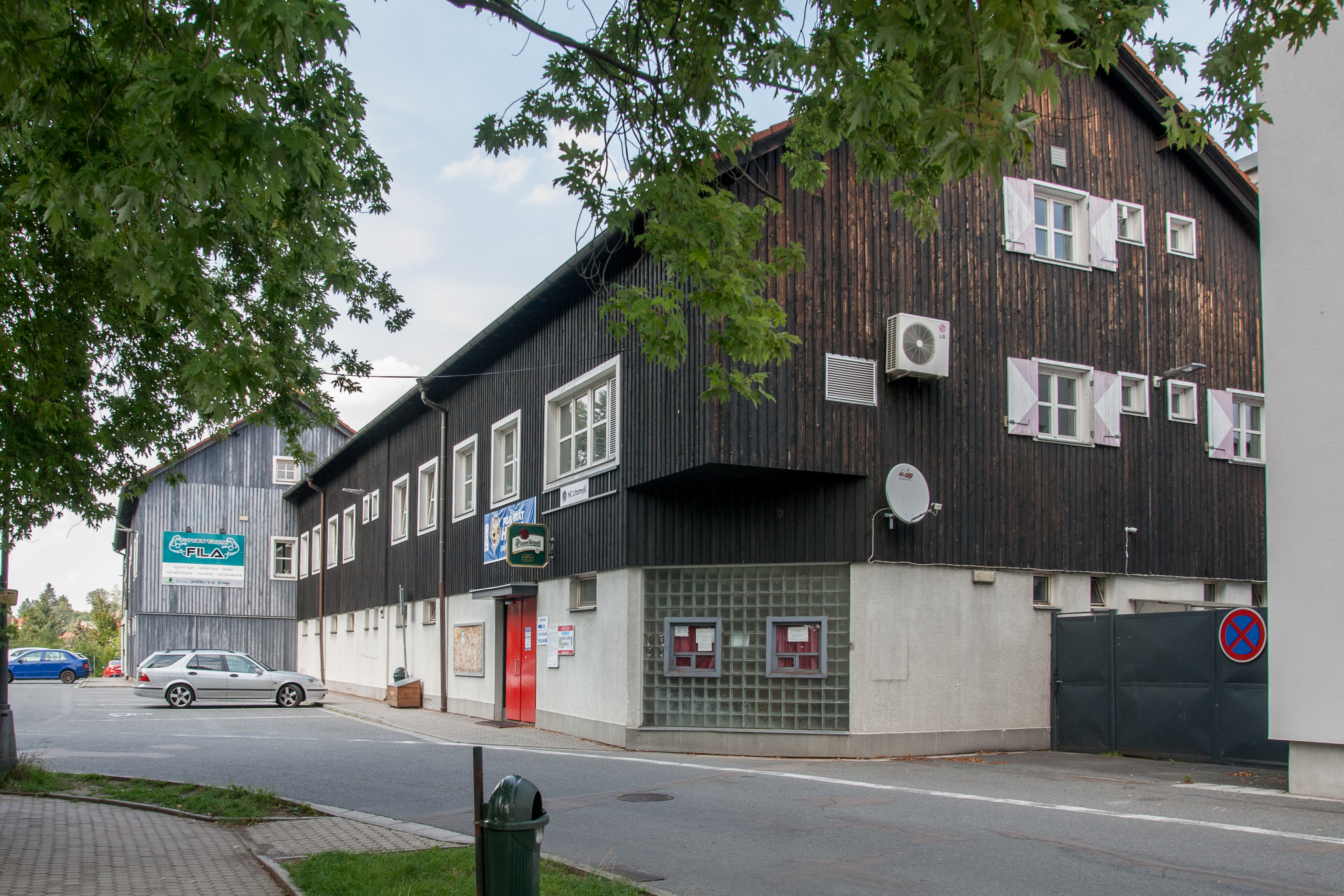 Ice hockey venue in Litomyšl, Svitavy District, Pardubice Region, Czechia